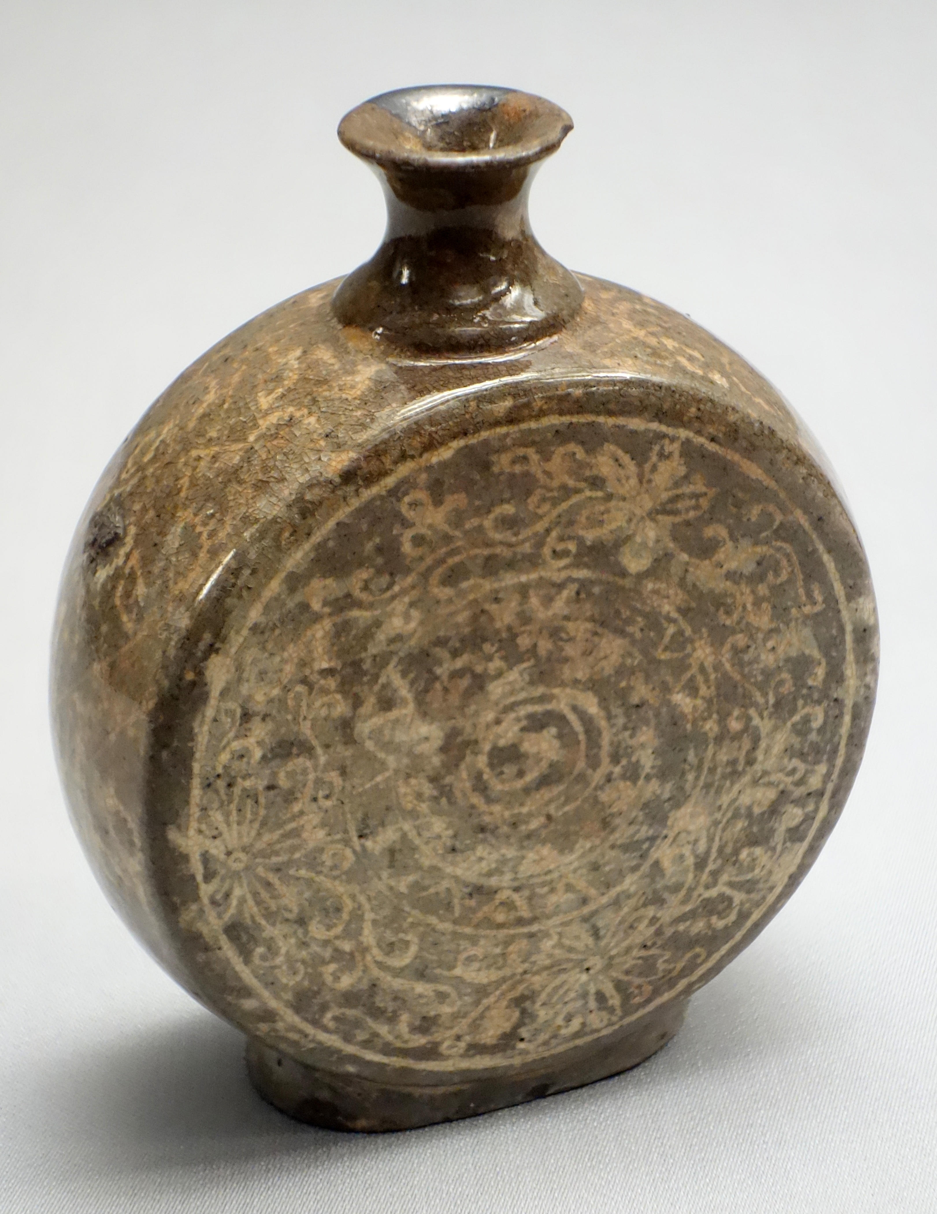 Exhibit in the Tokyo National Museum, Tokyo, Japan. This artwork is old enough so that it is in the public domain.